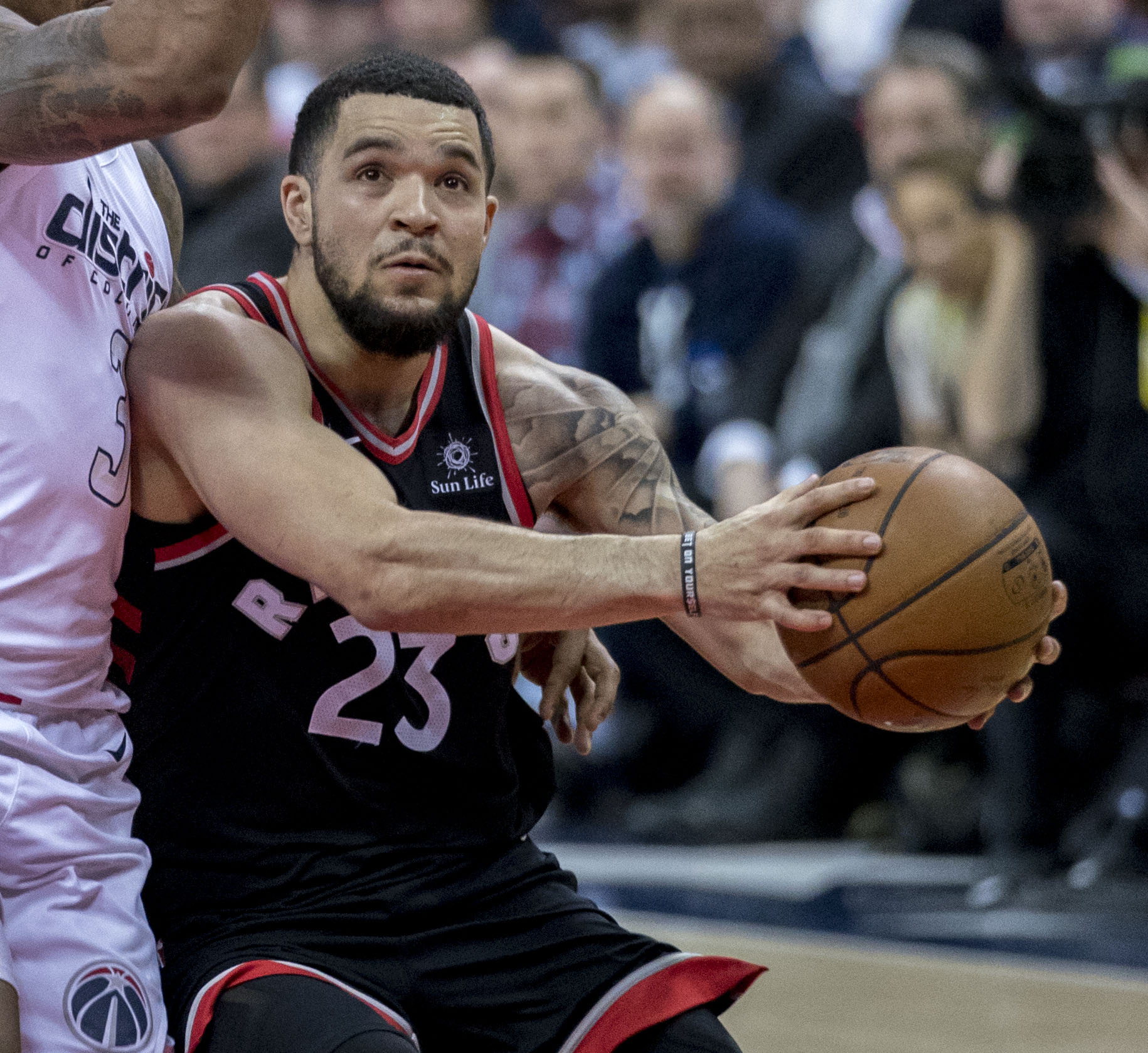 Raptors at Wizards 3/2/18